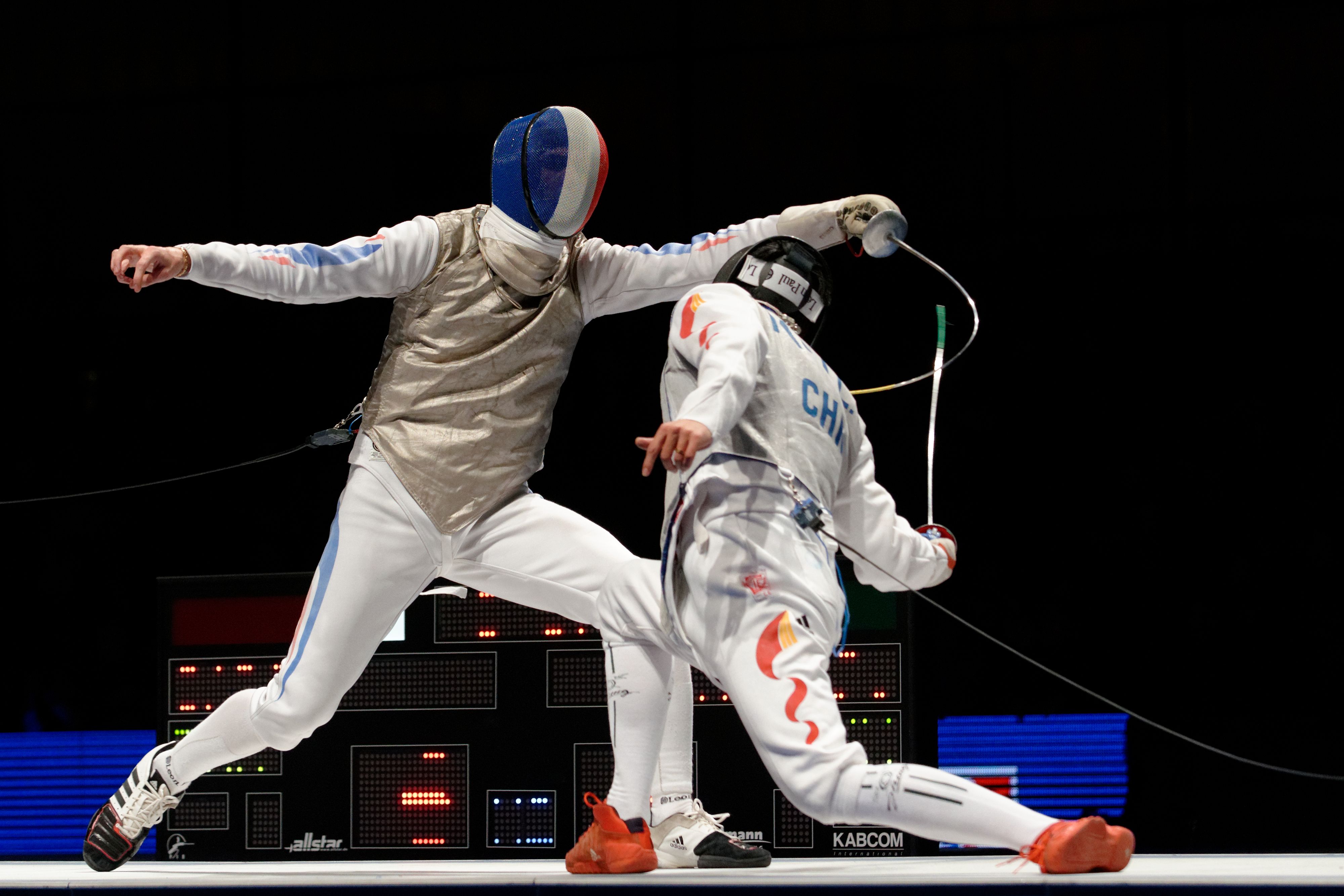 Semi-final of the Challenge international de Paris 2013 (foil World Cup tournament): Jérémy Cadot (left) versus Tao Jiale (right).